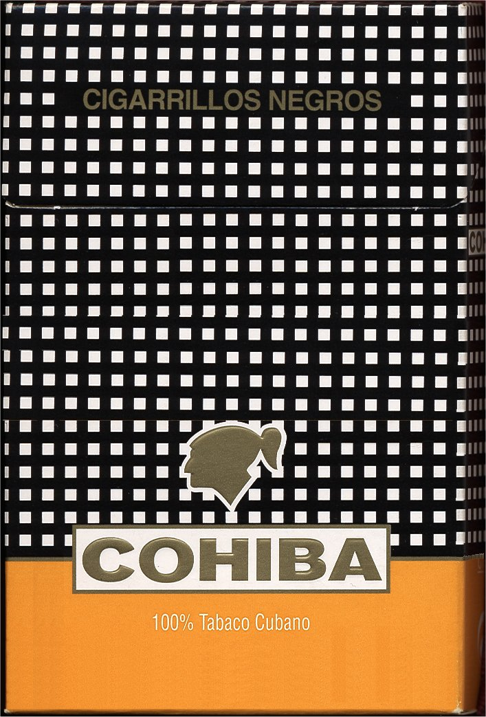 Cohiba Box of Cigarettes, additional Information on the box was removed. author Jorin, source Scan of the box at 300dpi with a result of 707x1043 pixel